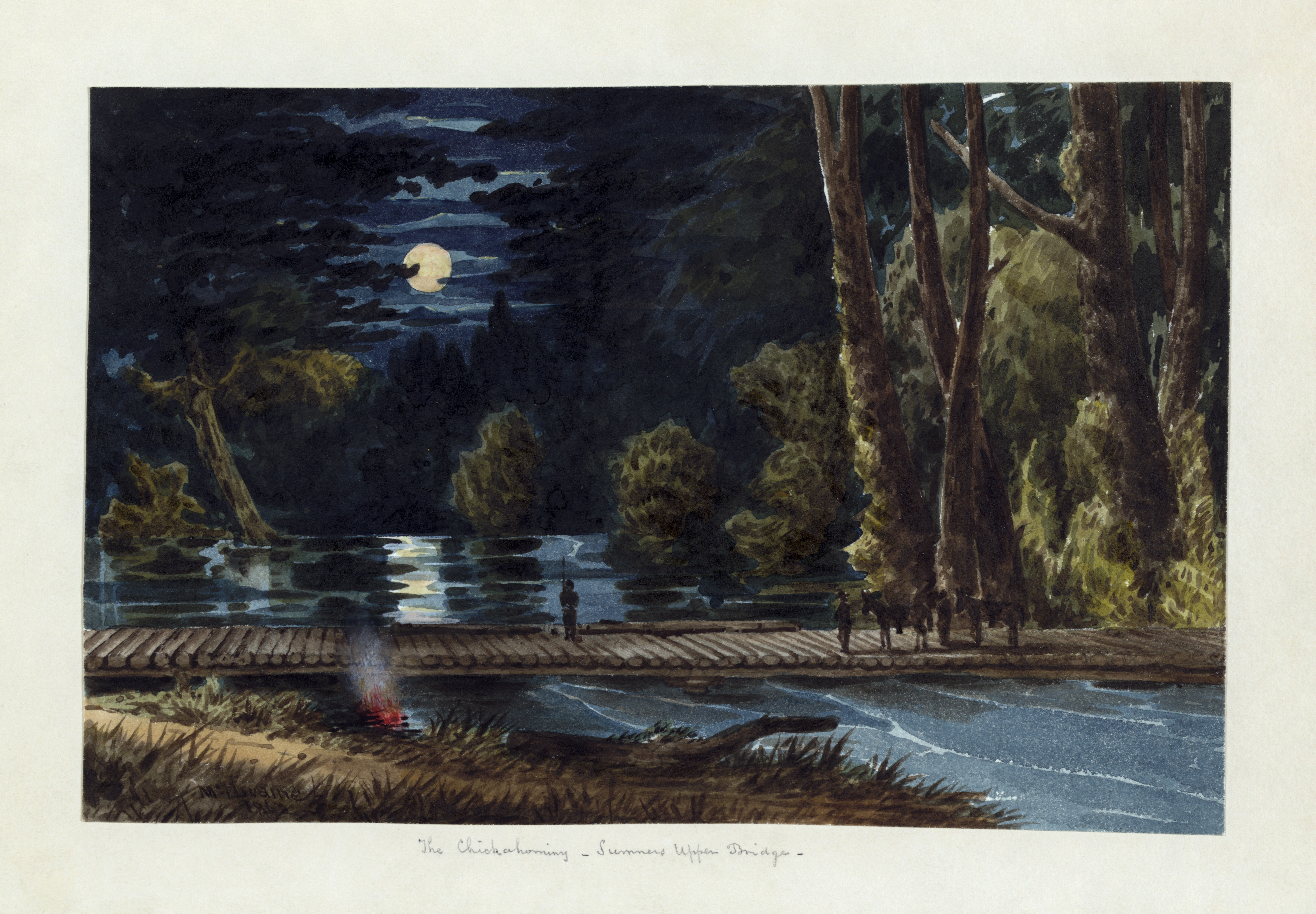 Watercolour showing a bridge created by Edwin Vose Sumner's troops to allow crossing of the Chickahominy River, as part of the efforts of the two halves of the Union troops to recombine after the river flooded during the Peninsula Campaign of the American Civil War. Very conservative restoration, mainly of the outer paper. Crop loose as artwork is not very square; a loose crop makes it look better.